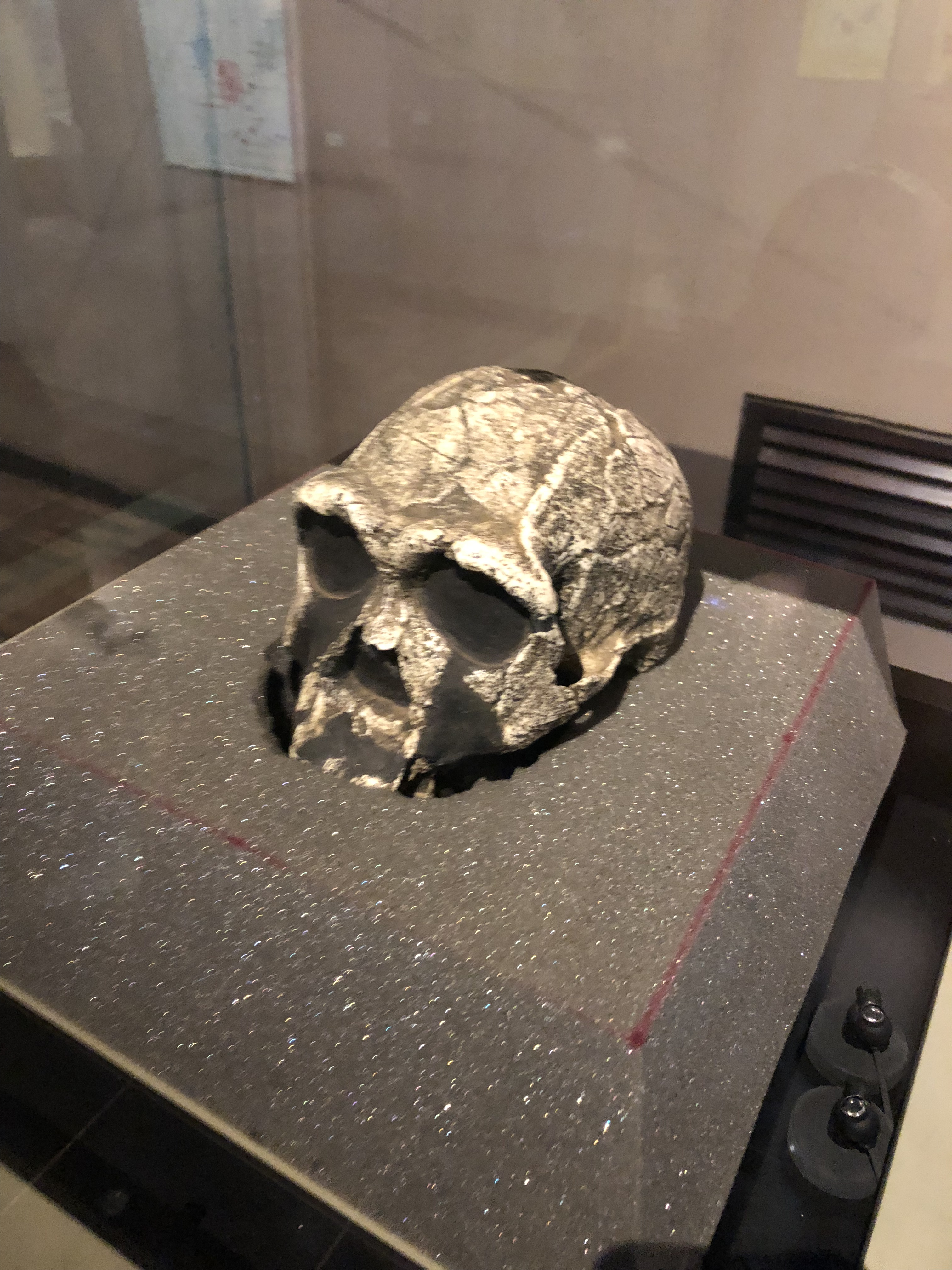 Homo erectus KNM ER 3733 actual skull from Kenya museum